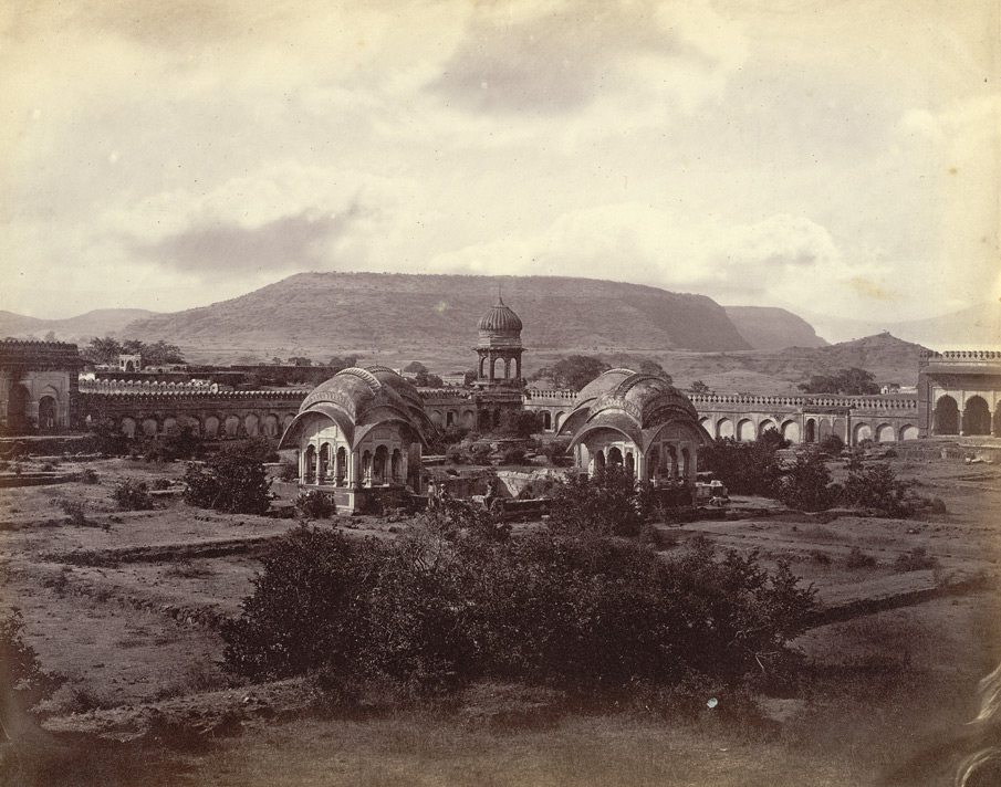 Photograph of Banu Begum's mausoleum in Aurangabad from the Allardyce Collection: Album of views and portraits in Berar and Hyderabad, taken by J. Johnston in the 1860s. Aurangabad is situated on the Kham river in the Dudhana valley between the Lakenvara Hills and the Sathara mountain range in Maharashtra. Originally known as Khadke, it was founded in 1610 by Malik Amber at a crossroads of the region's major trade routes. It later became the base of the Mughal Emperor Aurangzeb and was renamed in his honour. This photograph is of the tomb of Bani Begum, the wife of one of Emperor Aurangzeb’s sons. Built in the 18th century, the tombs pavilions are balanced on slender pillars surmounted by Bengali-style domed roofs.